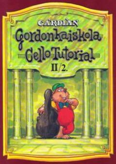 Gárdián Gábor: Cello School Volume II/2 cover